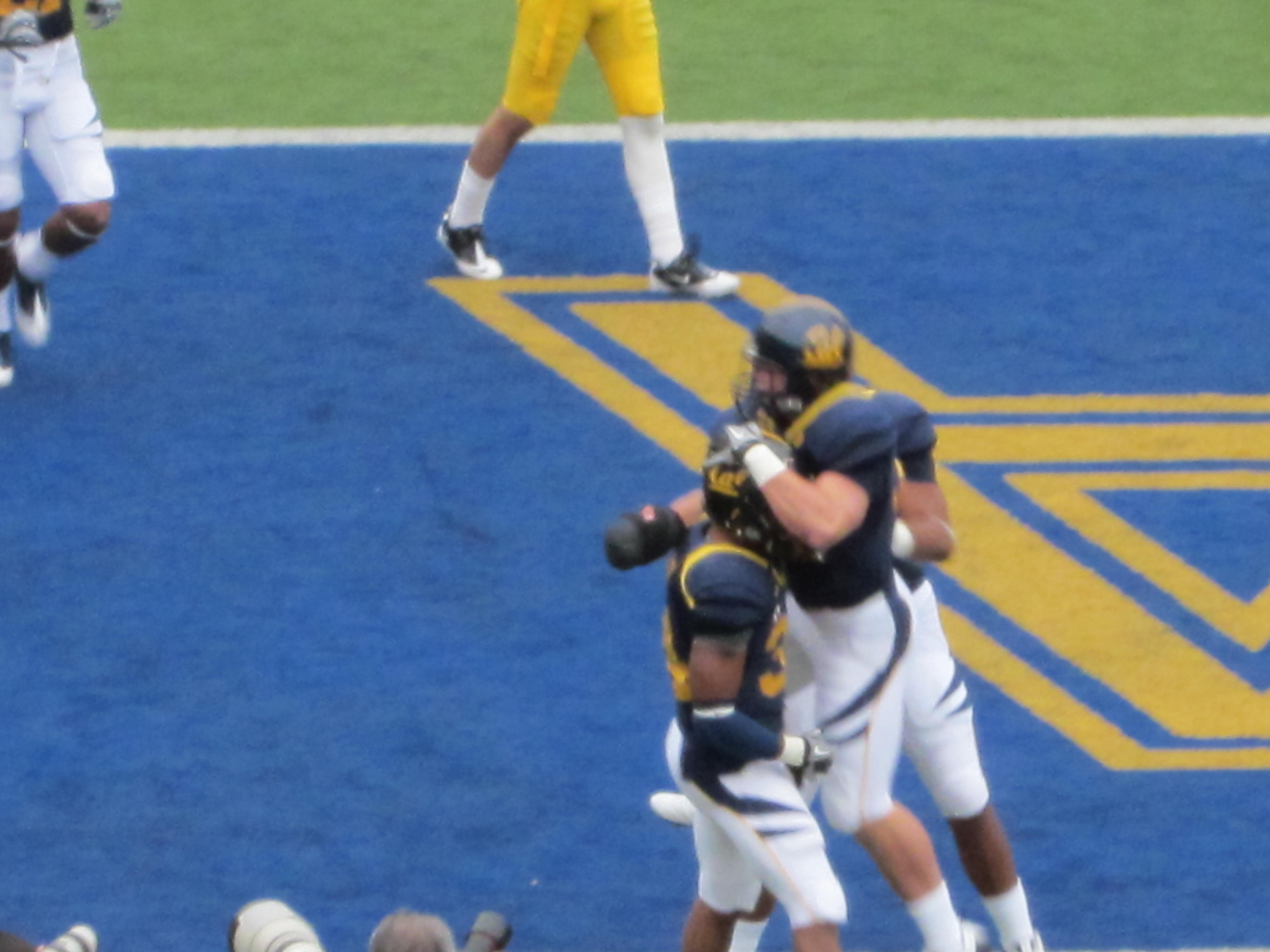 Cal running back Shane Vereen scores a touchdown during a home game against the Arizona State Sun Devils in Berkeley. The Golden Bears won 50-17.